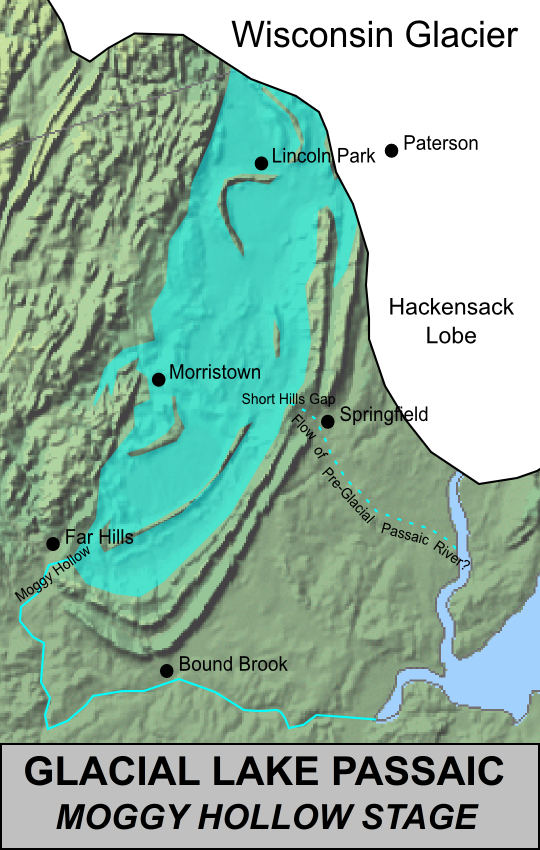 The image shows the approximate extent of the Moggy Hollow stage of Glacial Lake Passaic in New Jersey, USA. During this stage, the previous drainage of the Passaic River through the Short Hills Gap in the Watchung Mountains had been blocked due to a moraine deposited by the retreating Wisconsin Glacier. The river's water was forced to flood the expansive valleys west of the First and Second ridges of the Watchungs before exiting out from behind the mountains via a gap at Moggy Hollow.